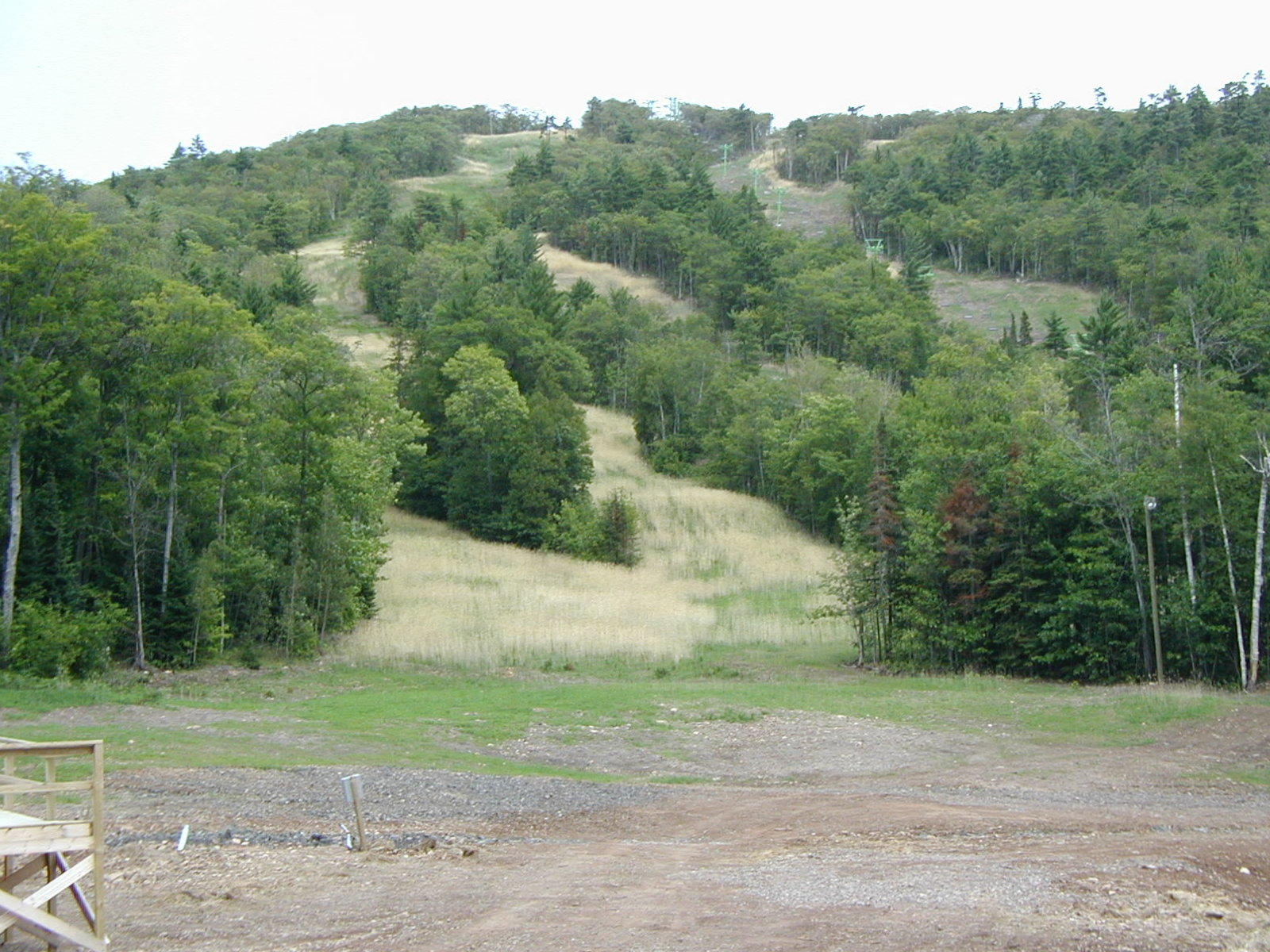 Mount Bohemia in July 2011